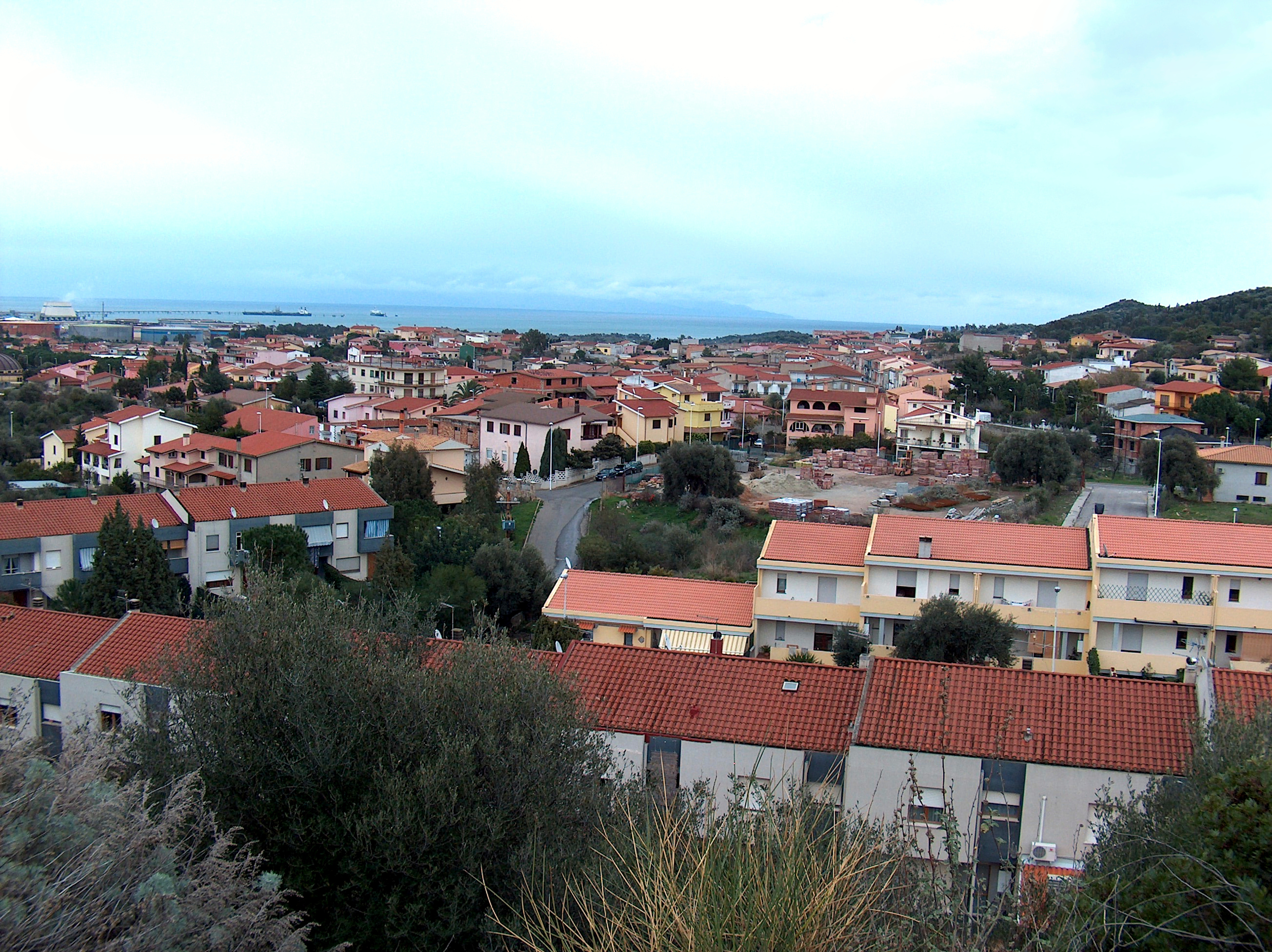 View of Sarroch (Sardinia, Italy)